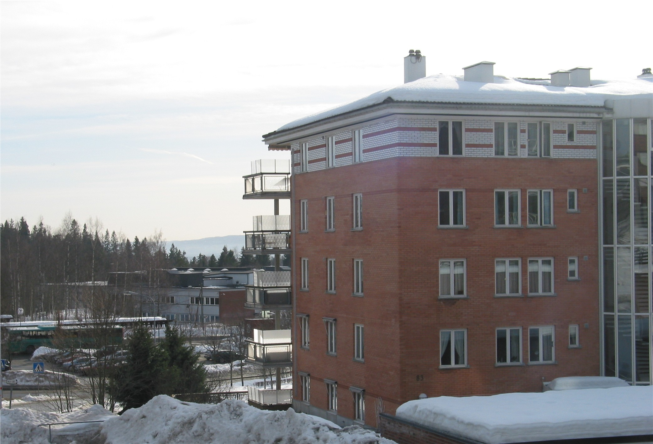 Housing near Østerås station, Norway. The station can be seen in the background, behind the green bus. The building in the background is Østerås school.